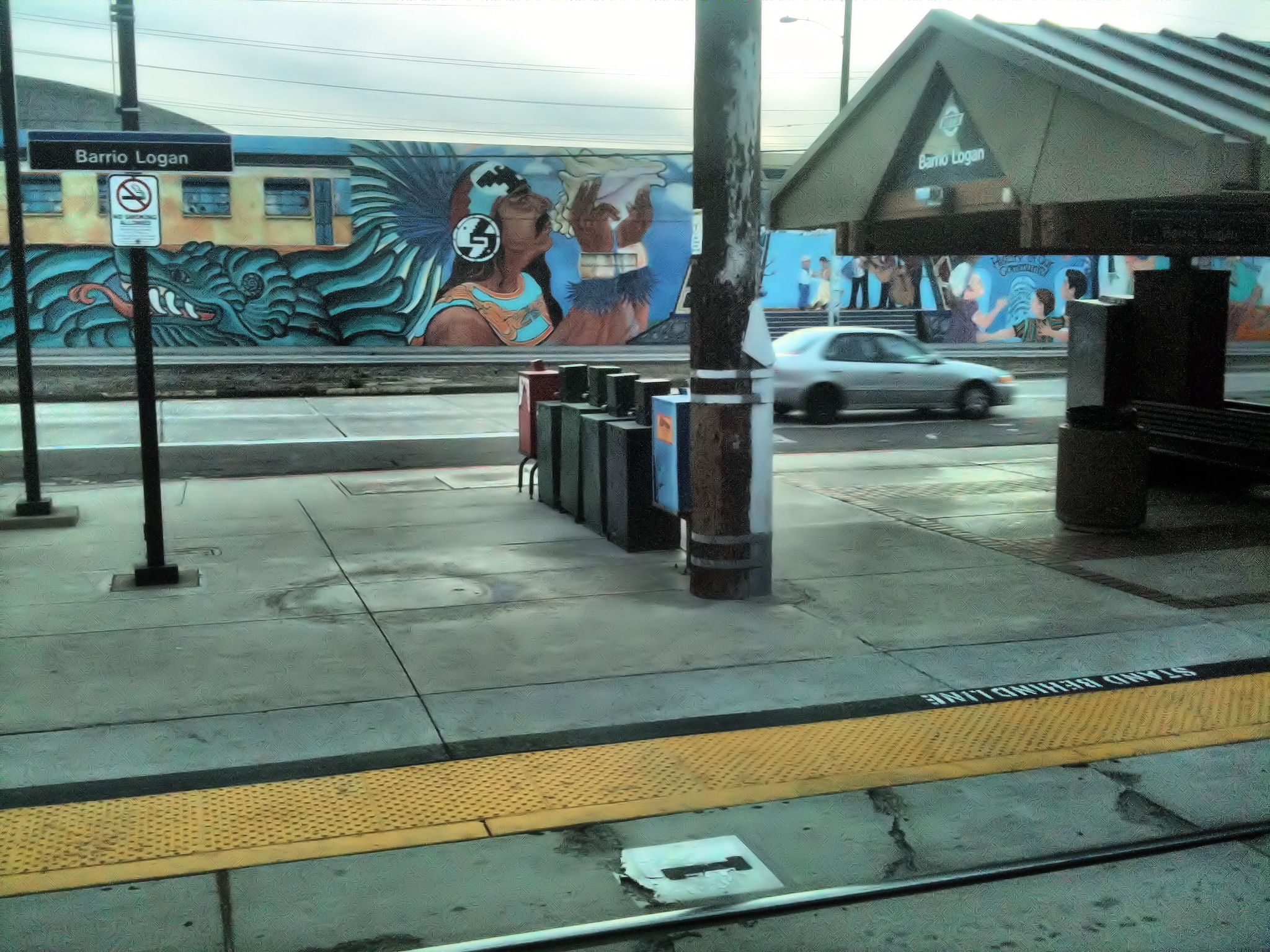 Barrio Logan Trolley Station